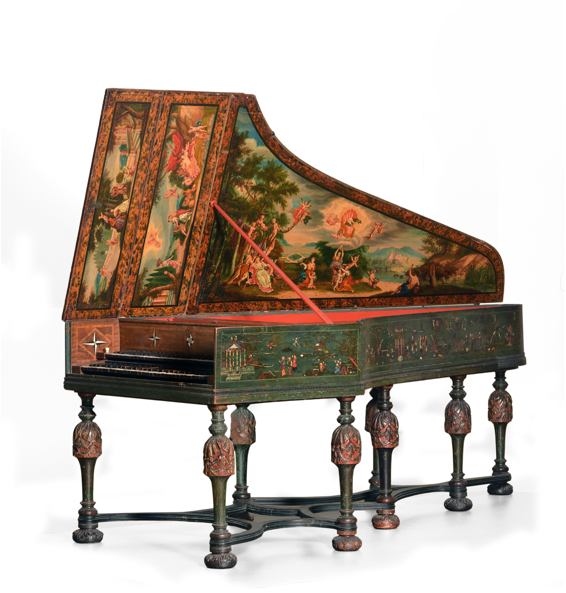 Harpsichord with two manuals, painted with chinoiseries and scenes from Ovid's Metamorphoses